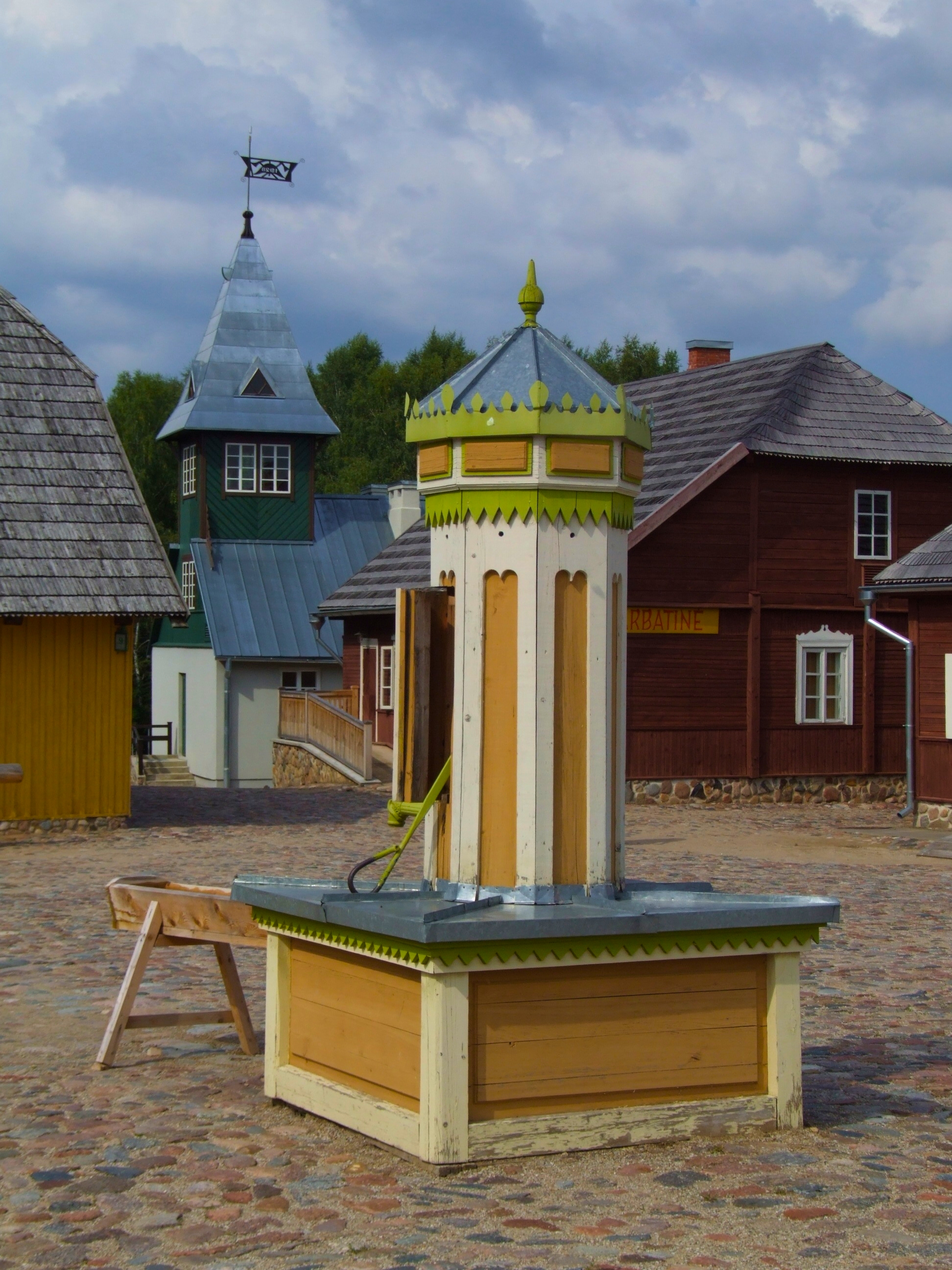 Rumšiškės (Rumszyszki) - Open air ethnographic museum. Water well